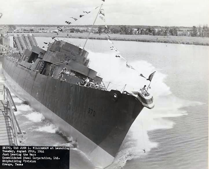 Launch of the U.S. Navy destroyer escort USS John L. Williamson (DE-370) at the Consolidated Steel Corporation, Orange, Texas (USA), on 29 August 1944.